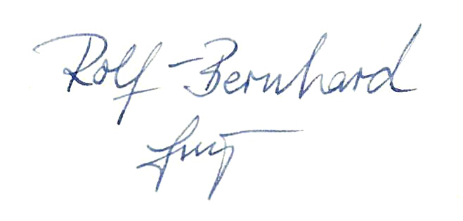 Autograph or signature of Rolf-Bernhard Essig